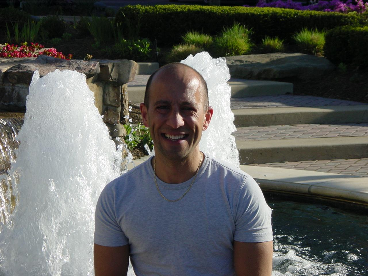 My own photo taken with my camera. Carlos A. Gomez-Rosa